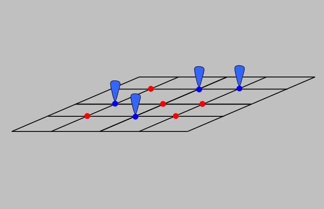 Schematic of occupied (blue) and vacant (red) sites on an idealized surface.